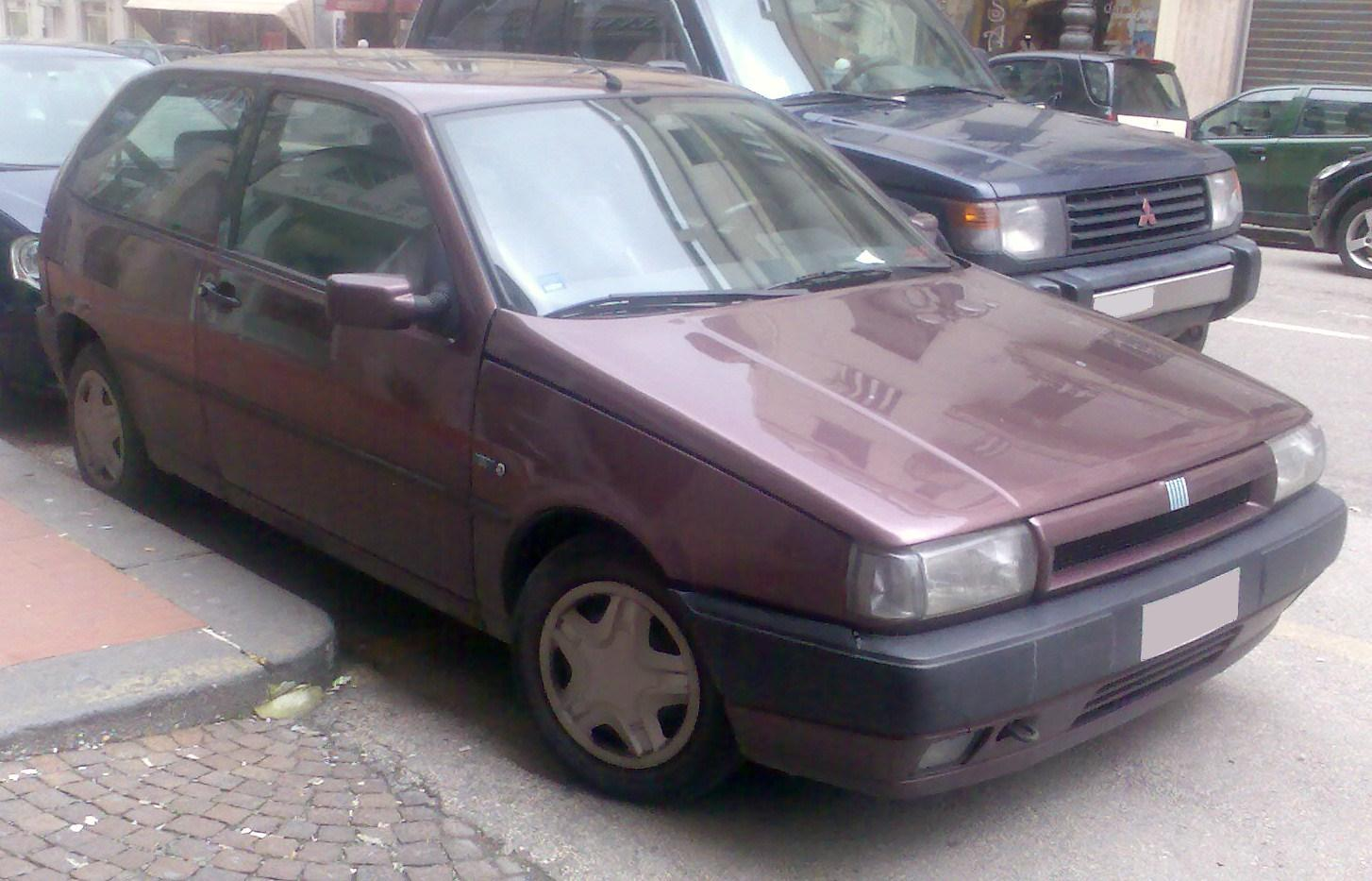 Fiat Tipo 3door